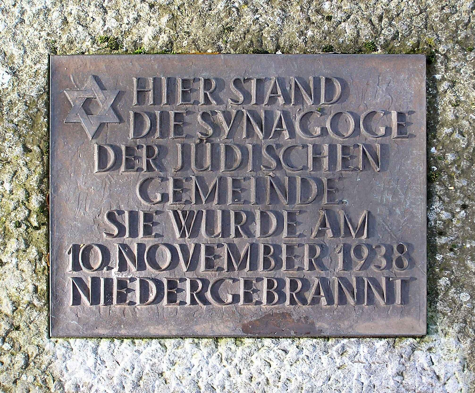 Quakenbrück